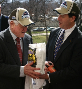 The results of a bet between Senators Rick Santorum (R-PA) and Ted Kennedy (D-MA) regarding the Super Bowl. If the Eagles won, they would have to wear Eagle's hats and Kennedy would have to treat Santorum to New England cuisine. But in fact the Patriots won, so as pictured here, the two wore Patriot's ballcaps and Santorum treated Kennedy and his staff to Geno's Philly cheesesteaks.